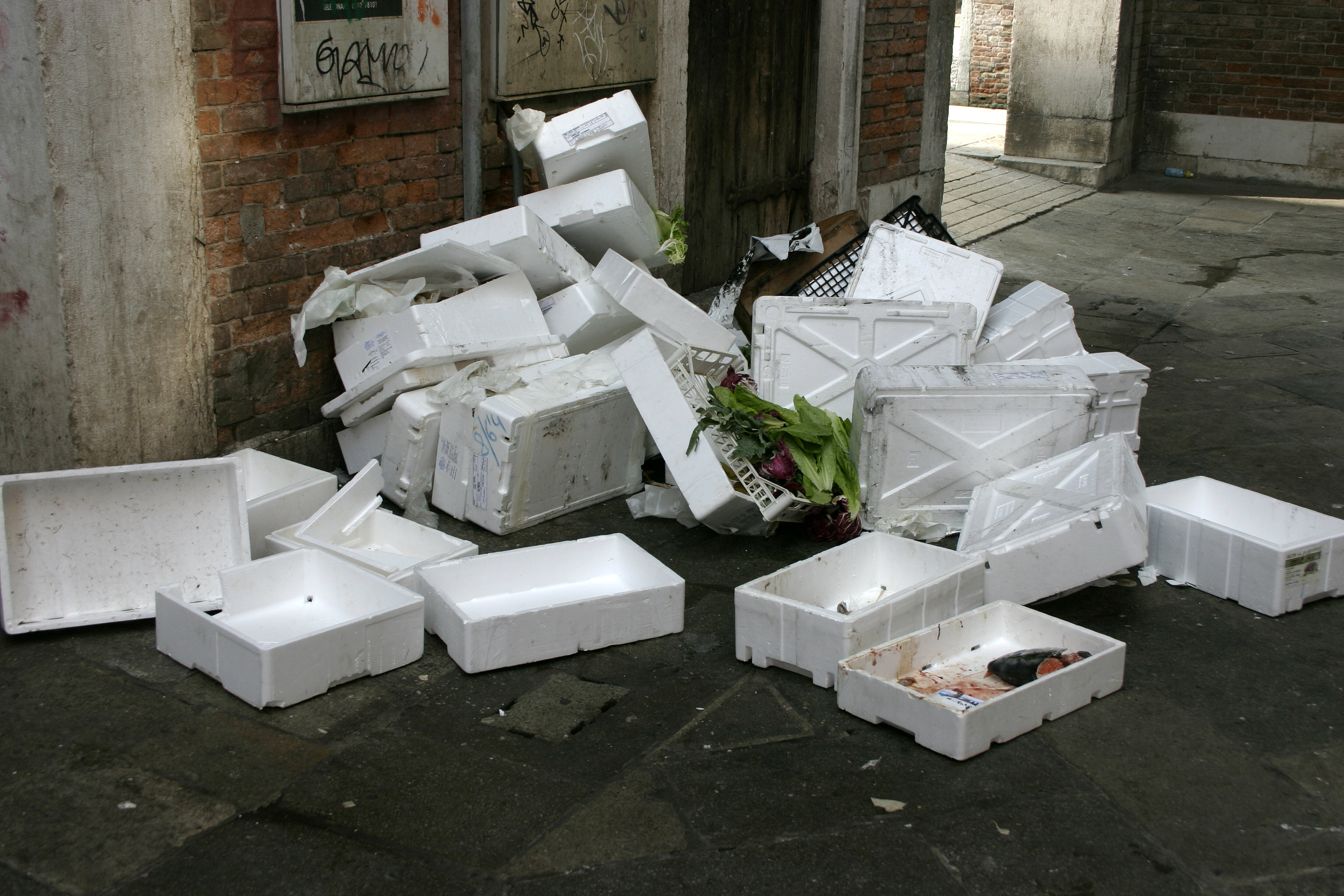 Polystirene waste